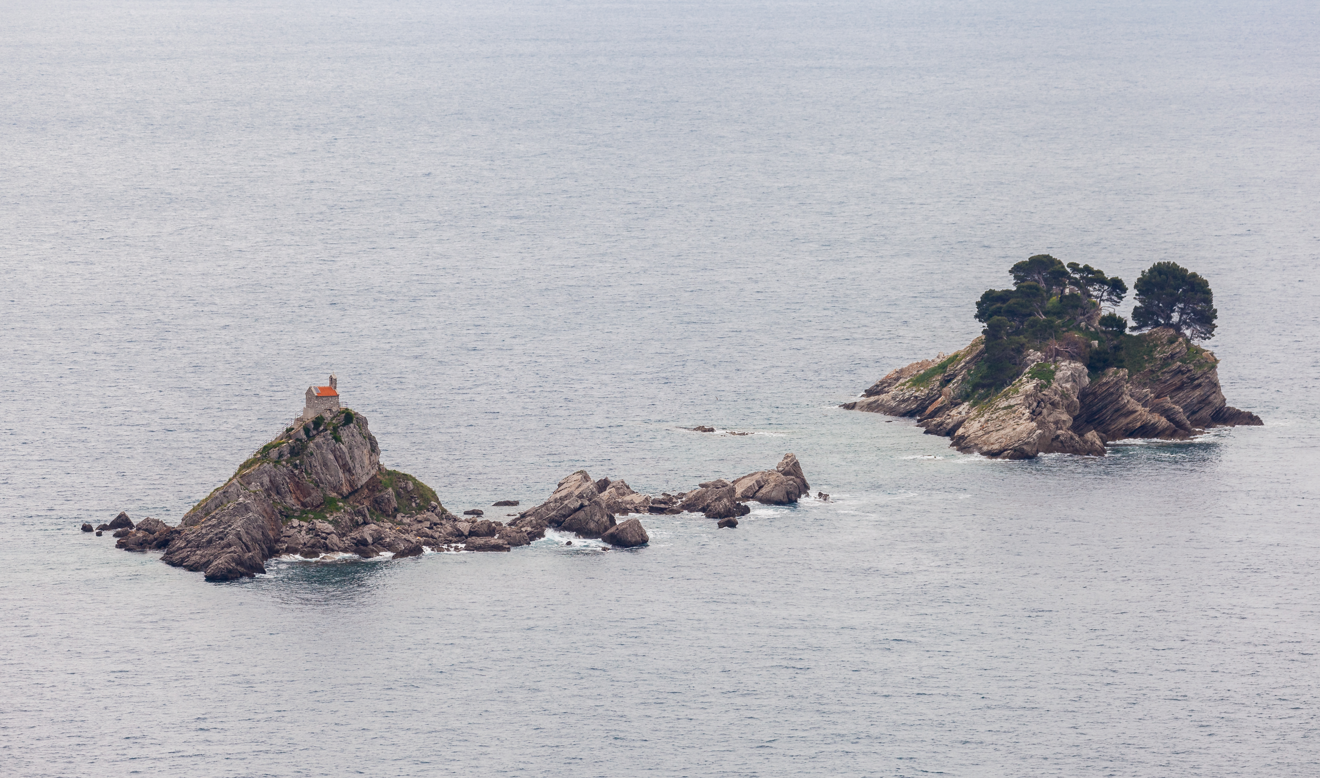 St Nedelya church, Petrovac, Montenegro